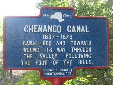 Historic marker of the Chenango Canal #15 2, the canal bed and towpath through the valley. Oxford, NY.